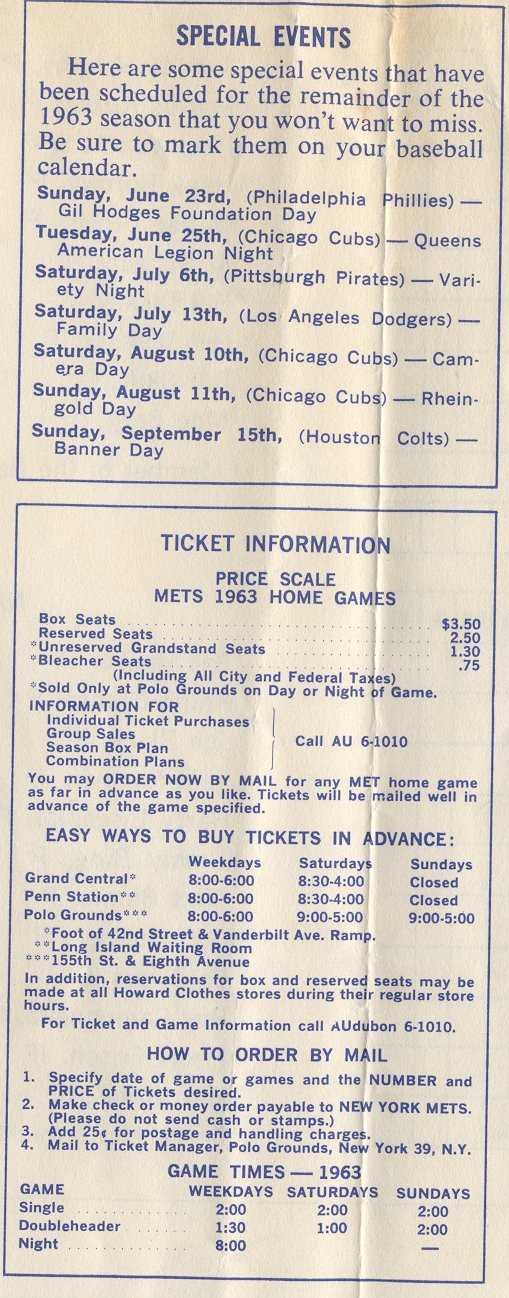 Information about the 1963 New York Mets' ticket prices, special events, and how to purchase tickets.